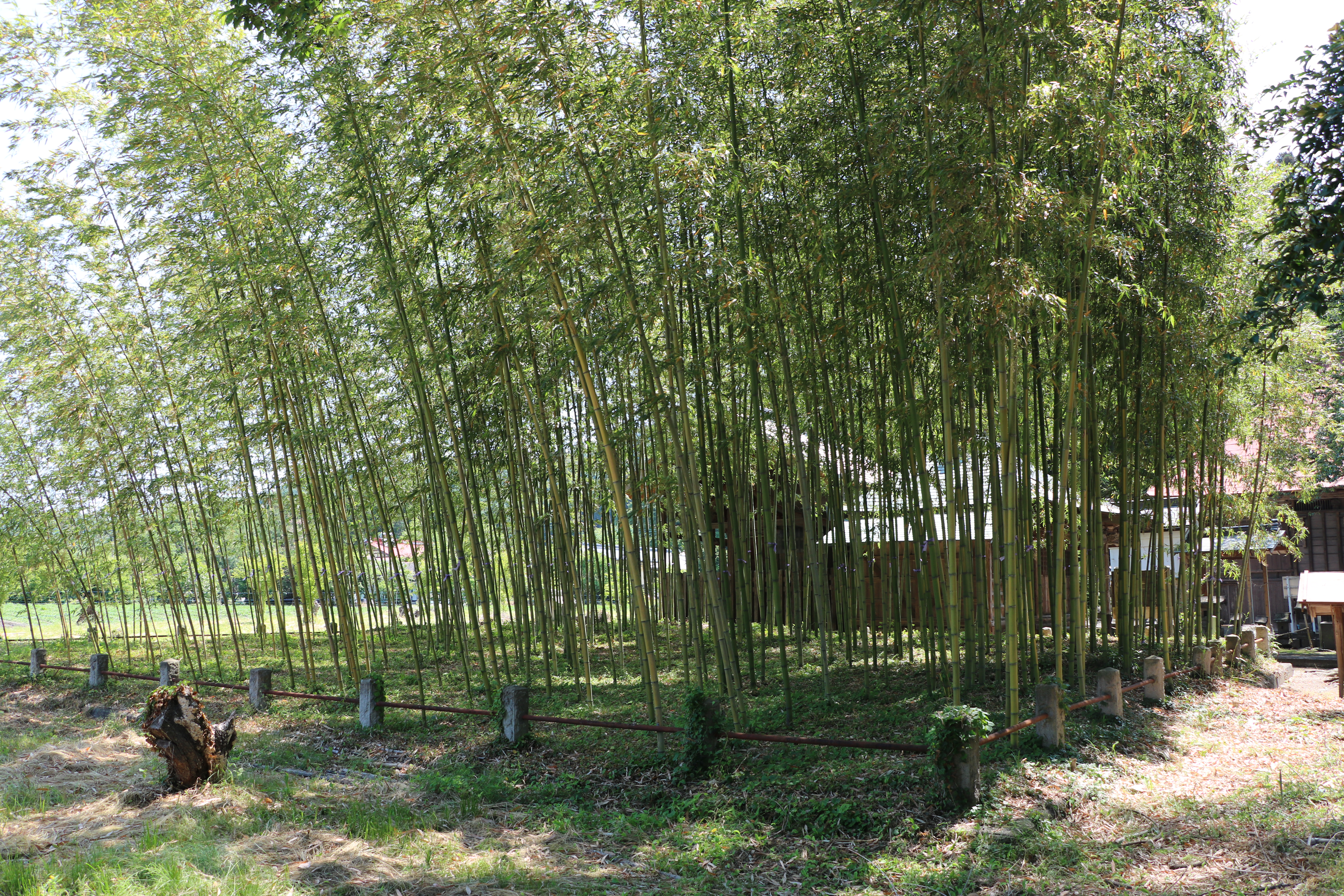 Shikishima no Kinmeichiku Castilloni-inversa at Shikishima